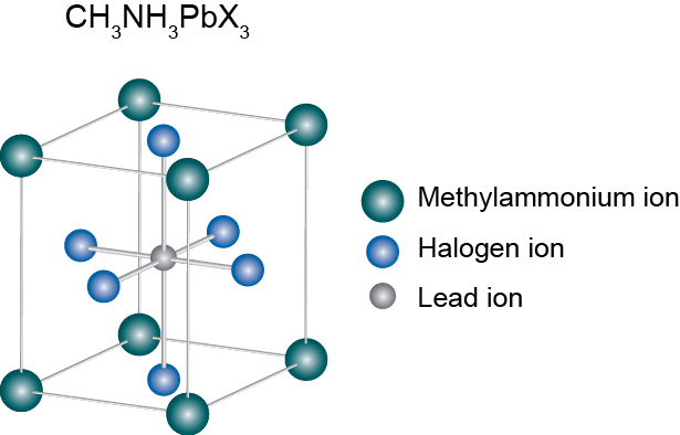 Unit cell of a the most commonly employed perovskite absorber in solar cells: methylammonium lead trihalide (CH3NH3PbX3, where X is a I, Br, Cl)